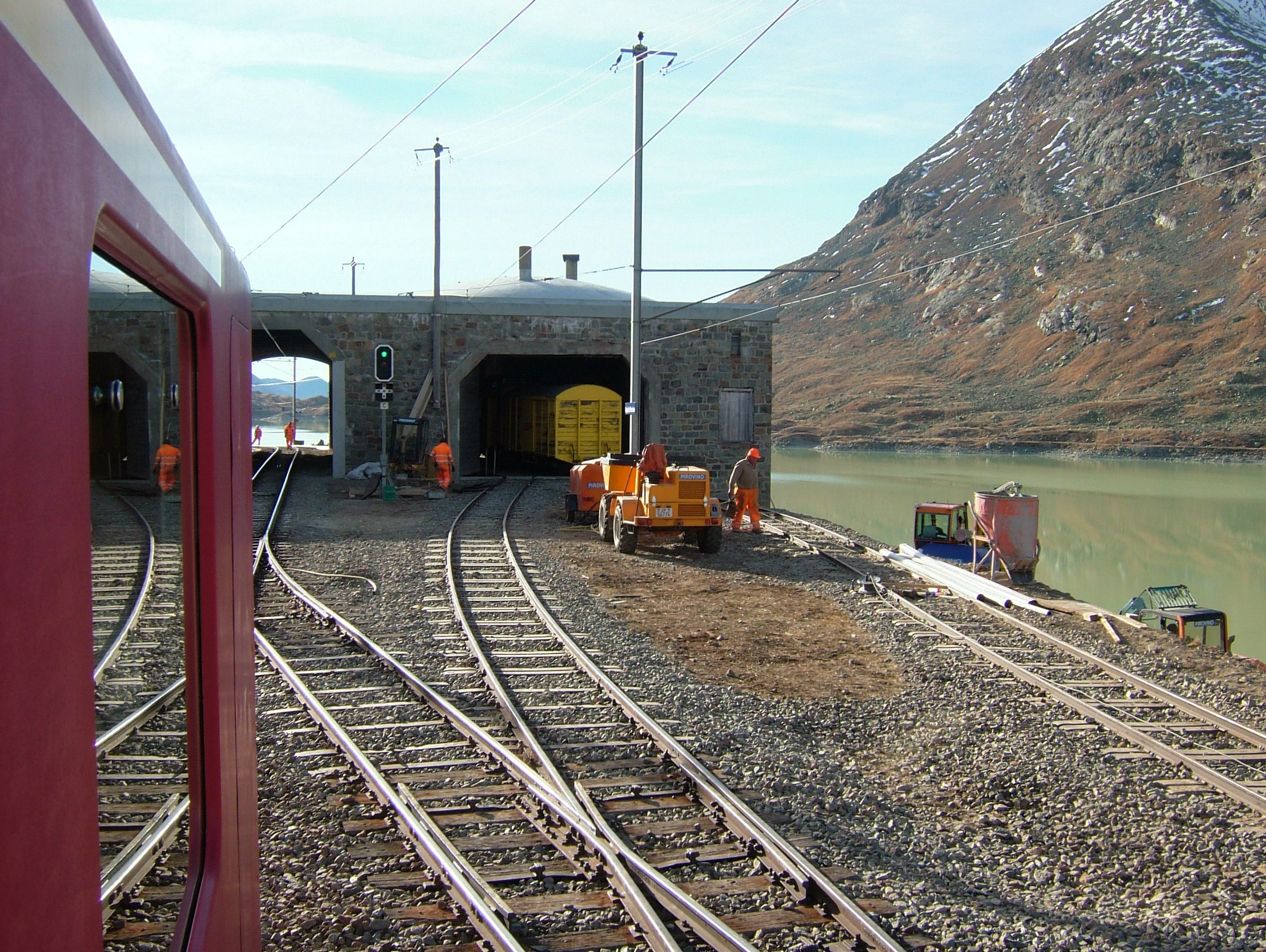 Bernina railwaySouthbound local train at Ospizio Bernina train station with Lago Bianco (White Lake)The right portal of the building leads to a covered turntable for snowploughs and snow blowers (e.g. RhB Xrotd 9213)